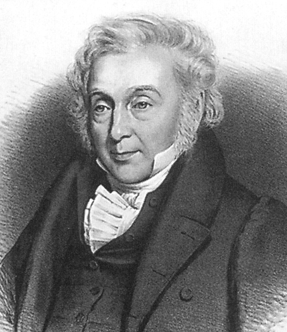 Johann Heinrich Ramberg, lithography by Julius Giere